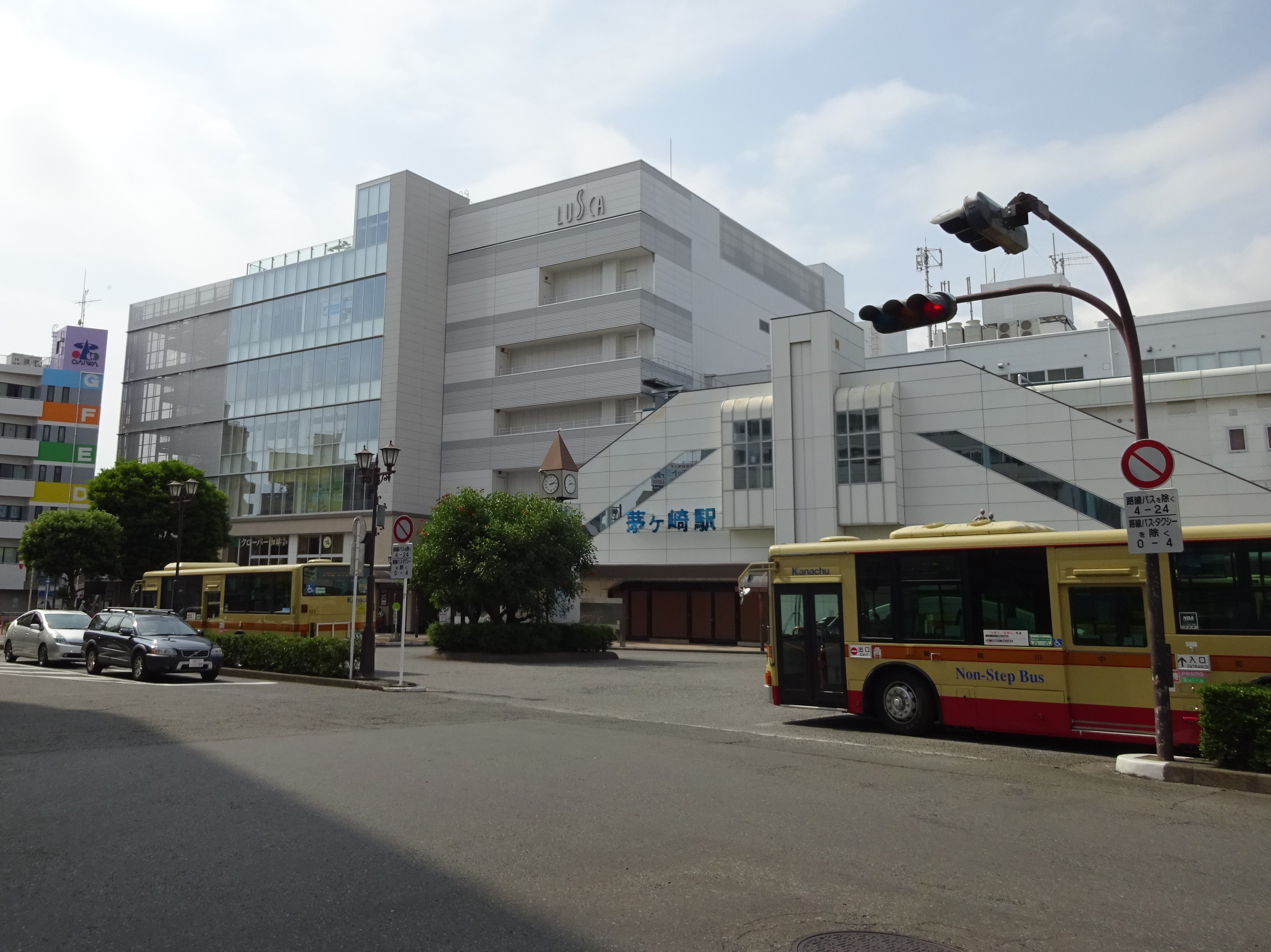 South Entrance of Chigasaki Station